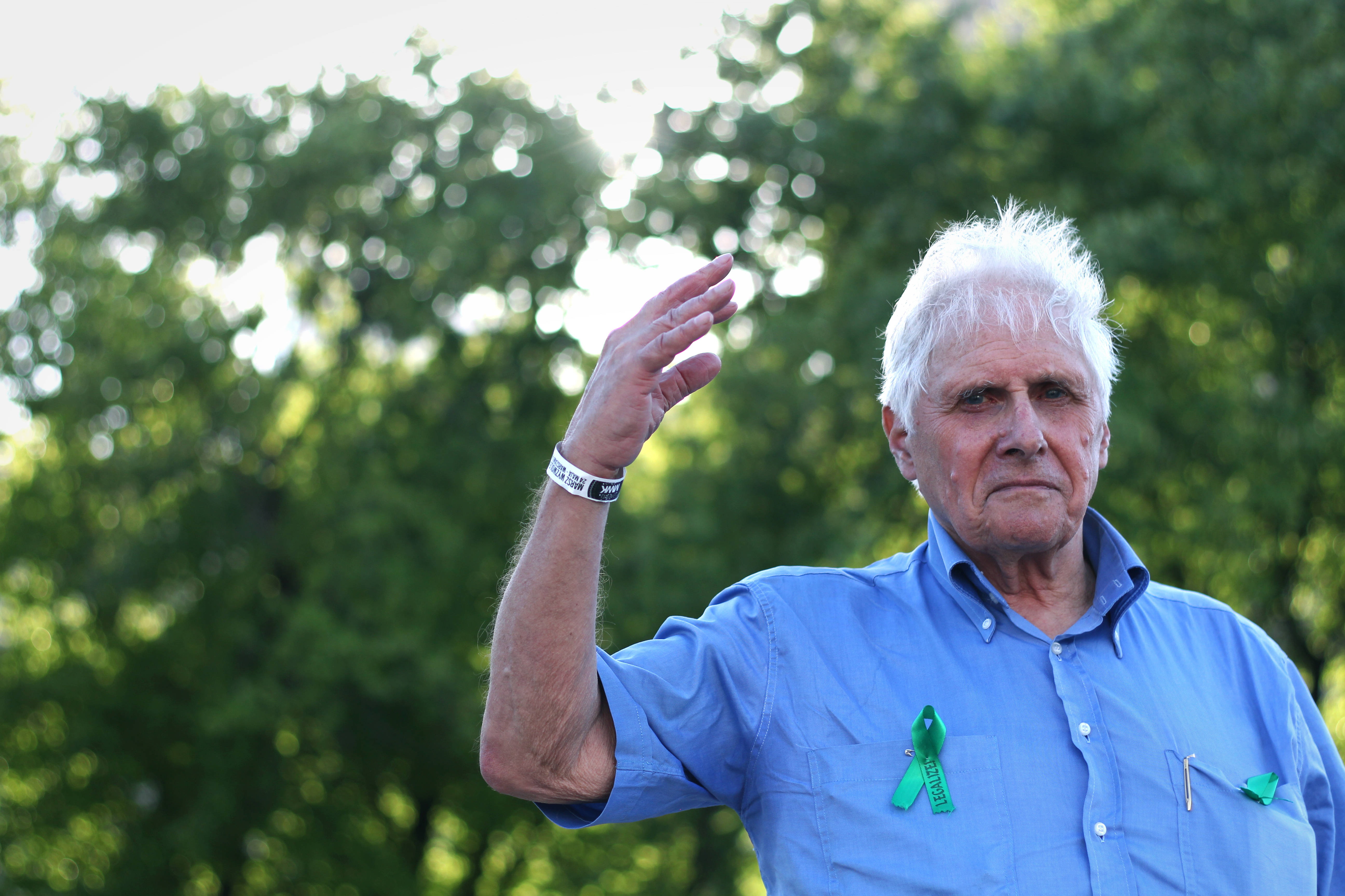 Jerzy Vetulani, Polish psychopharmacologist, at the Parade Square in Warsaw, after the Free Cannabis March in which he participated. A green ribbon on his chest has an inscription saying "Legalize!".